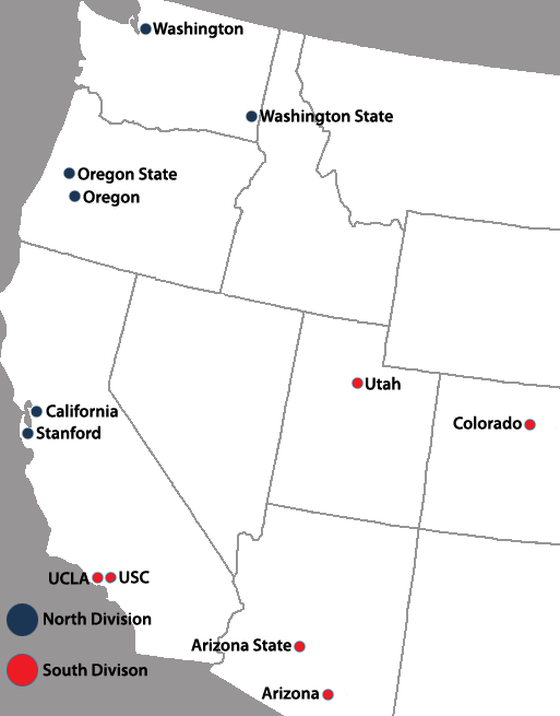 This image uses distinct colors to define the North/South teams. The original used two different (but very similar) shades of blue.